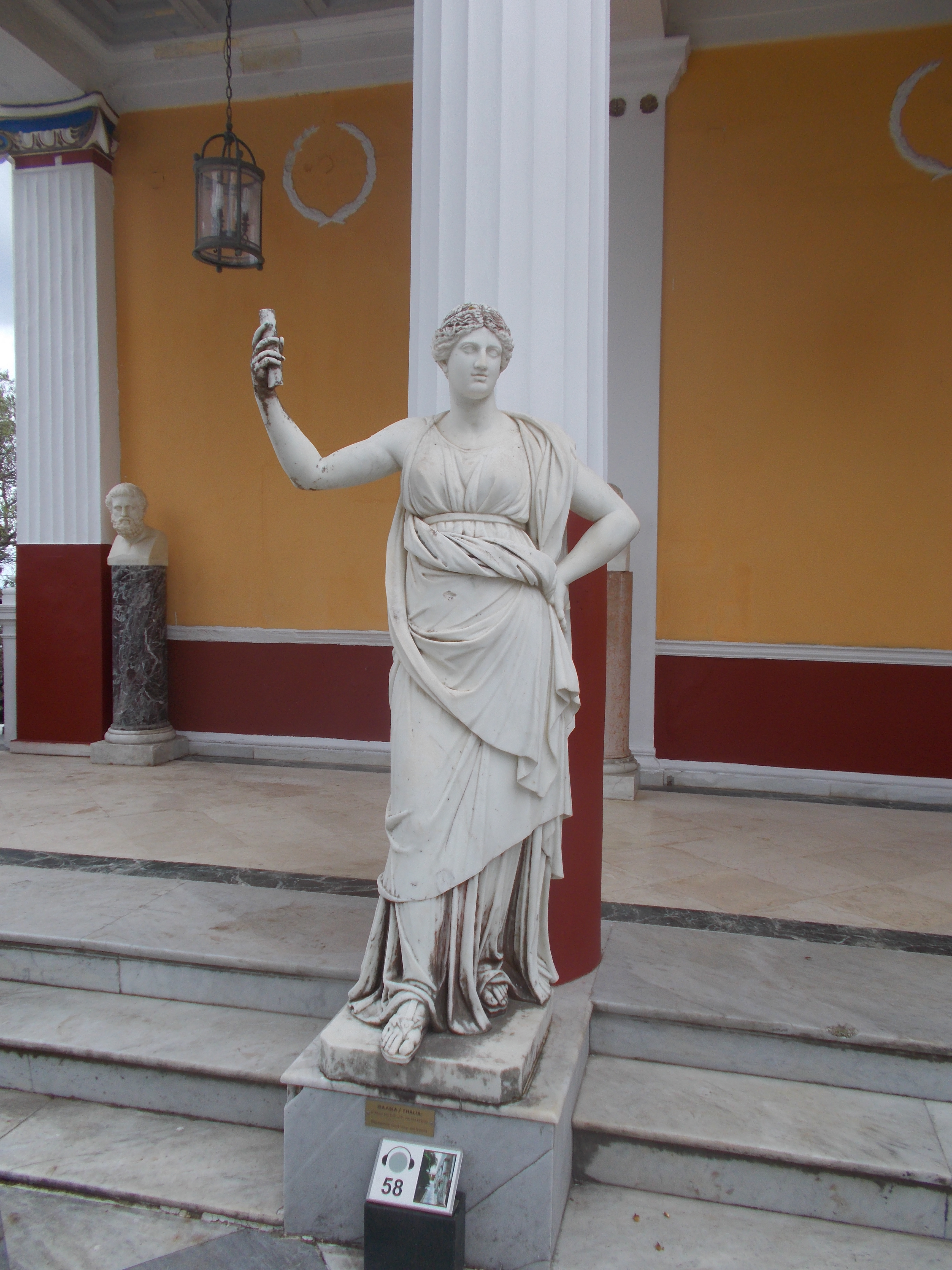 The Grace Thalia at Corfu.